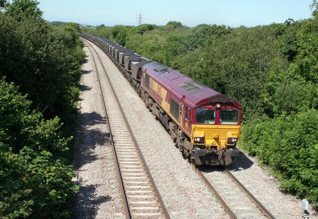 On Full Power The driver will have the loco on full power on the climb from Margam. The coal train approaches the top of Stormy bank , power will then ease off as its downhill then towards Bridgend.